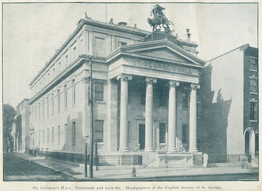 St. George's Hall, headquarters of the English St. George's Society located on the SE corner of Arch St. and 13th, 1831-1906. In the collection of the Free Library of Philadelphia. Their metadata follows: Item Info Item No: pdcc00088 Title: St. George's Hall, Thirteenth and Arch Sts. Additional Title: Headquarters of the English Society of St. George. Historic Street Address: 13th & Arch Streets Media Type: Photographic Prints Source: Print and Picture Collection Notes: Halftone reproduction of an original photograph. Notes: St. George's Hall was built in 1835 by architect Thomas Walter Ustick as a residence for Philadelphia railroad magnate Matthew Newkirk. Gracing the Southwest corner of 13th & Arch Streets, the marble palace was bought by the Society of the Sons of St. George in 1876 for use as their headquarters. A statue of St. George on horseback slaying the dragon decorated the front of the building. The building was demolished in 1903. Geocode Latitude: Geocode Latitude:39.954150 Geocode Longitude:-75.161008 Creator Name: Castner, Samuel, 1843-1929 - Compiler Walter, Thomas Ustick, 1804-1887 - Architect Newkirk, Matthew, 1794-1868